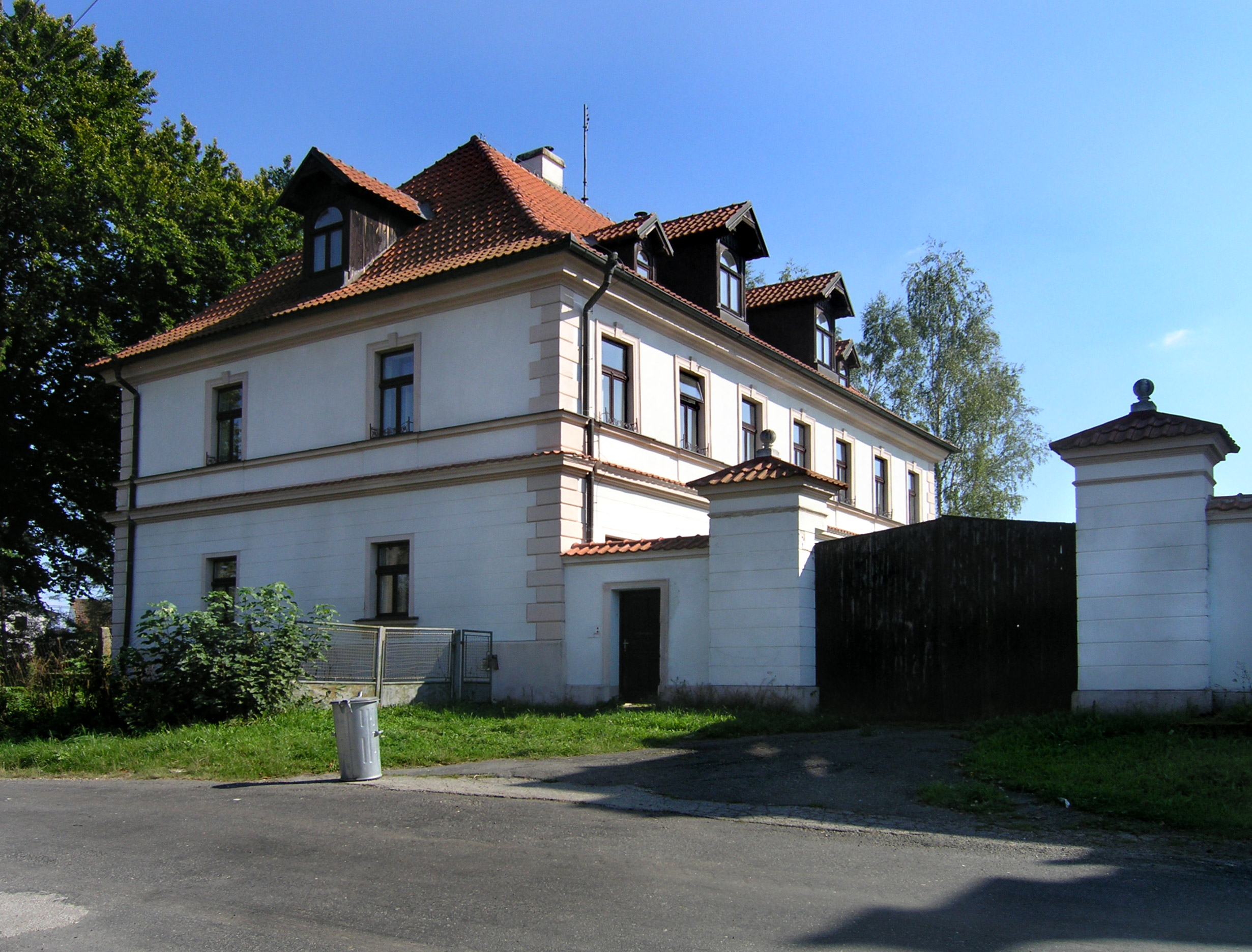 Common in Dražičky village, Czech Republic